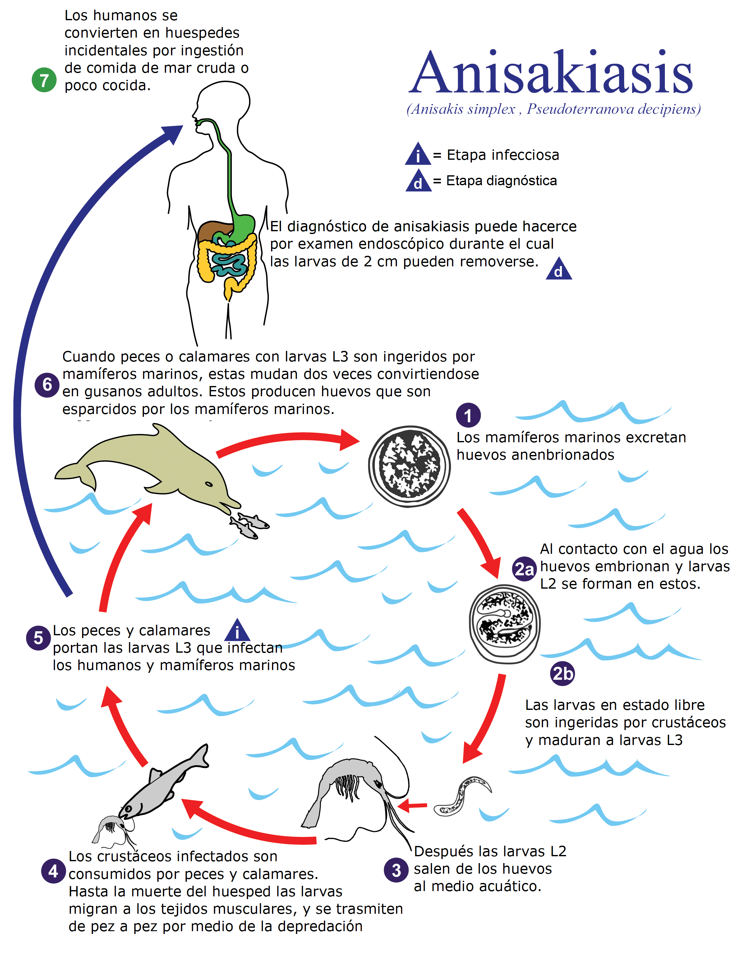 The life cycle of Anisakis simplex and Pseudoterranova decipiens, the causal agents of Anisakiasis. Obtained from the CDC Public Health Image Library. Image credit: CDC/Alexander J. da Silva, PhD/Melanie Moser (PHIL #3378), 2002.